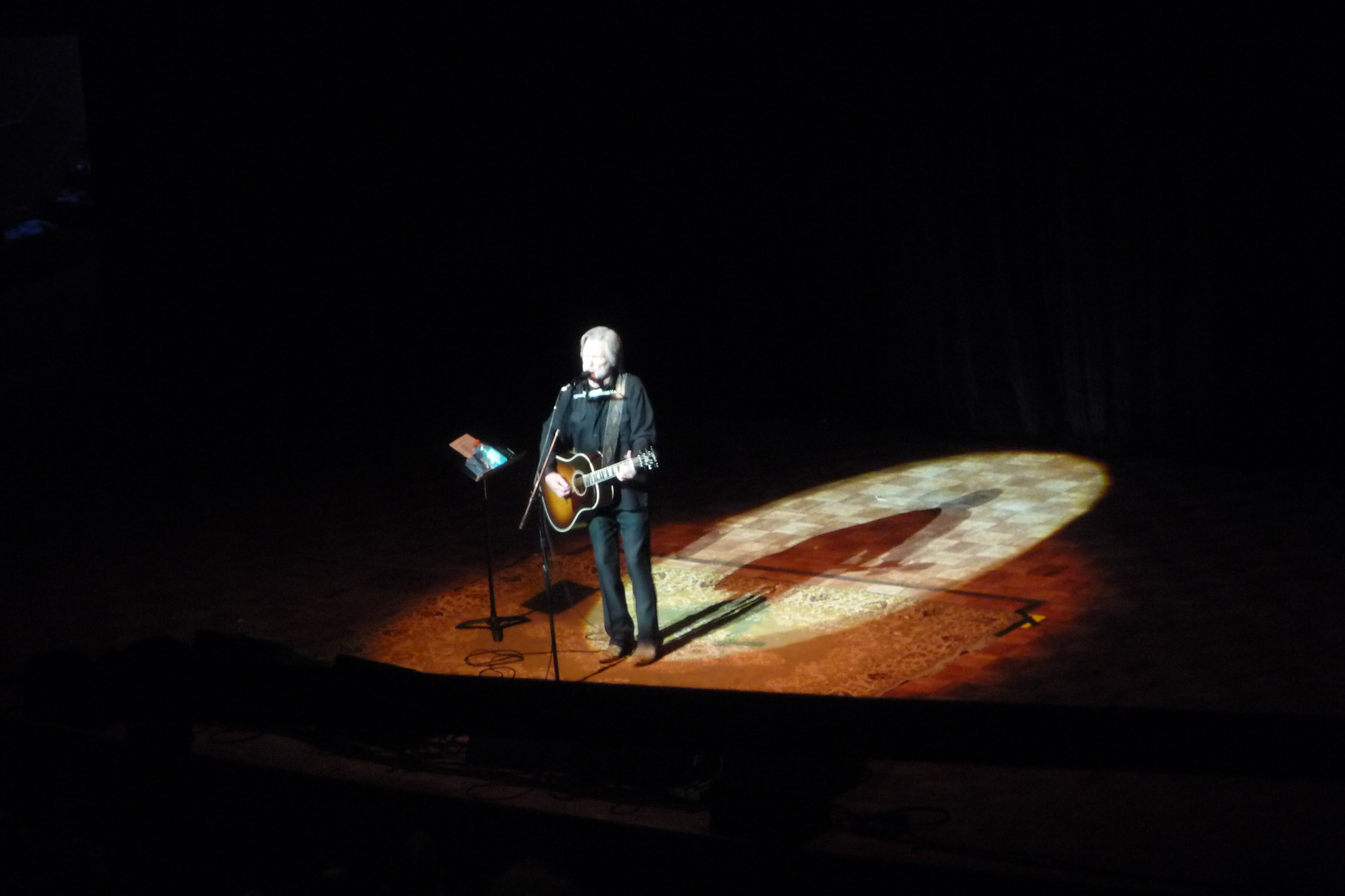 Kris Kristofferson At the Ann Arbor Folk Fest